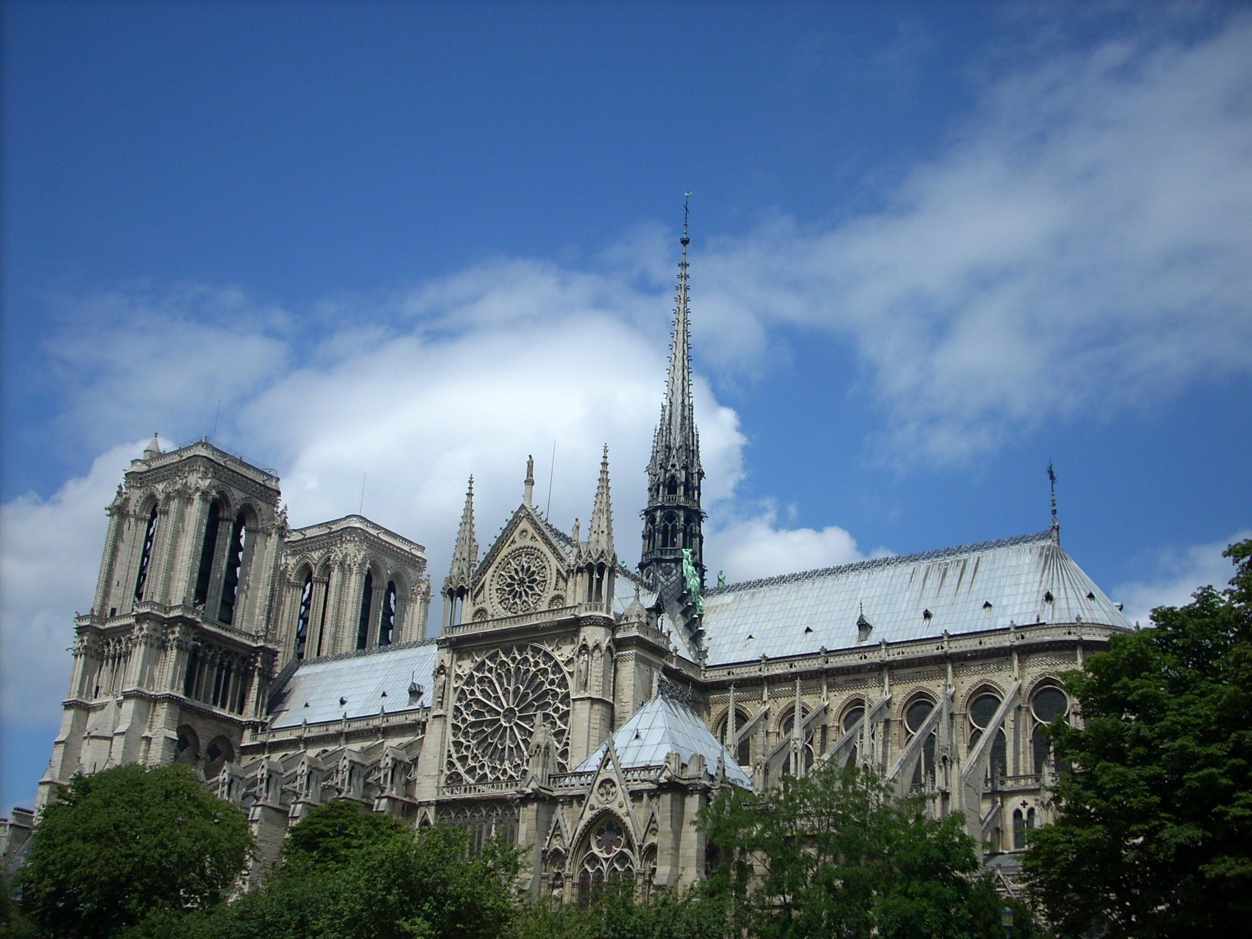 Cathedral Notre-Dame de Paris, gothic transept facade (south) Template:Cathédrale Notre-Dame de Paris, facade gothique du transept (sud)